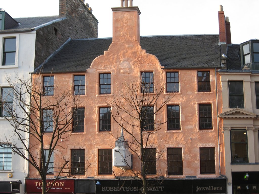 The part of the "Gardyne's Land" complex of buildings which faces Dundee High Street.